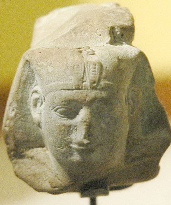 Shabaqo portrait